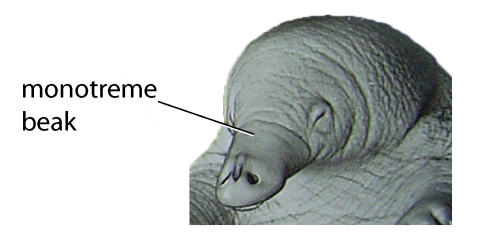 Standard Event System character depiction